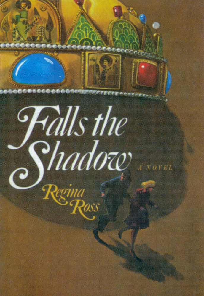 Regina_Ross_-_Falls_the_Shadow__-_book_cover,_NY_1974label QS:Len,"Regina_Ross_-_Falls_the_Shadow__-_book_cover,_NY_1974" label QS:Lhu,"Regina_Ross_-_Falls_the_Shadow__-_könyvborító,_NY_1974"